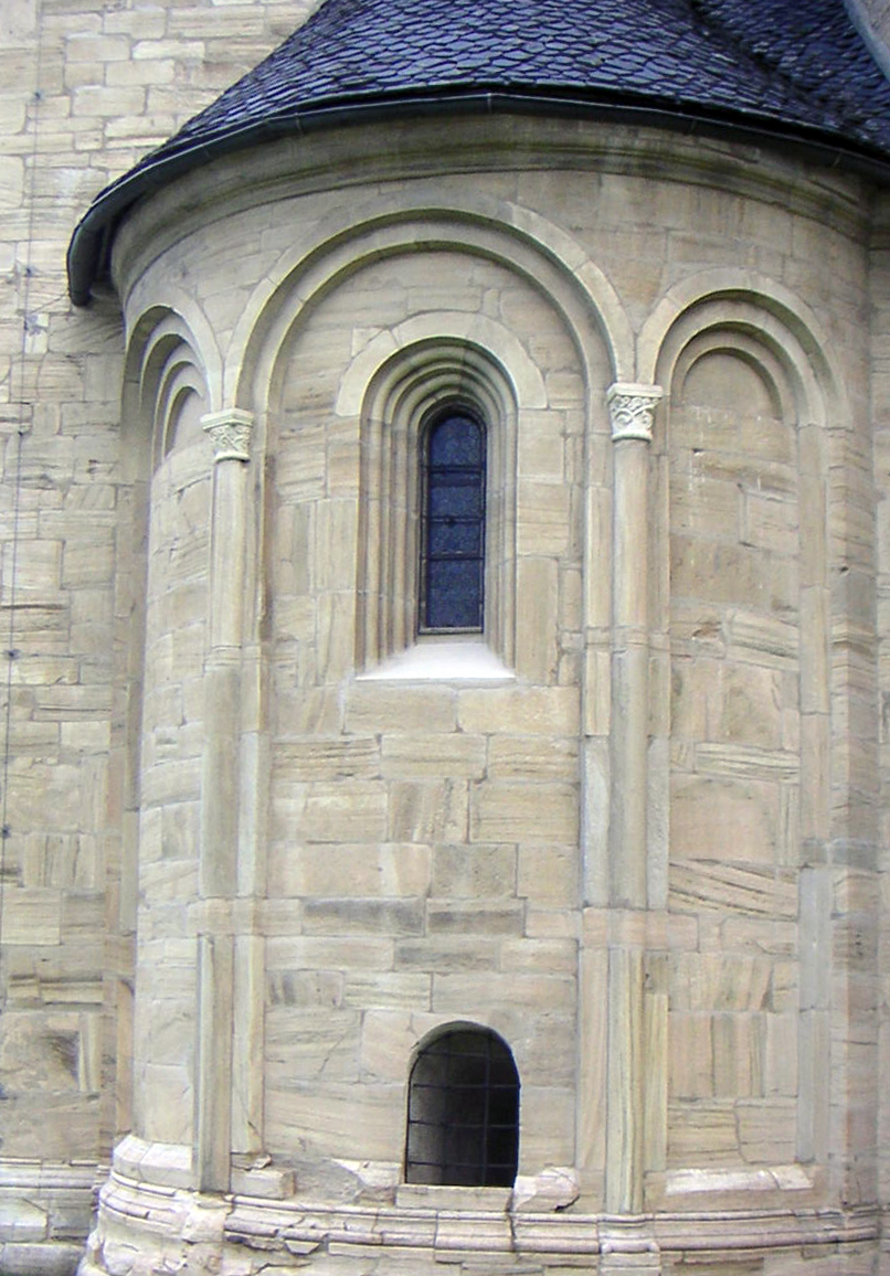 Apsis at the Gurk cathedral, Carinthia, Austria